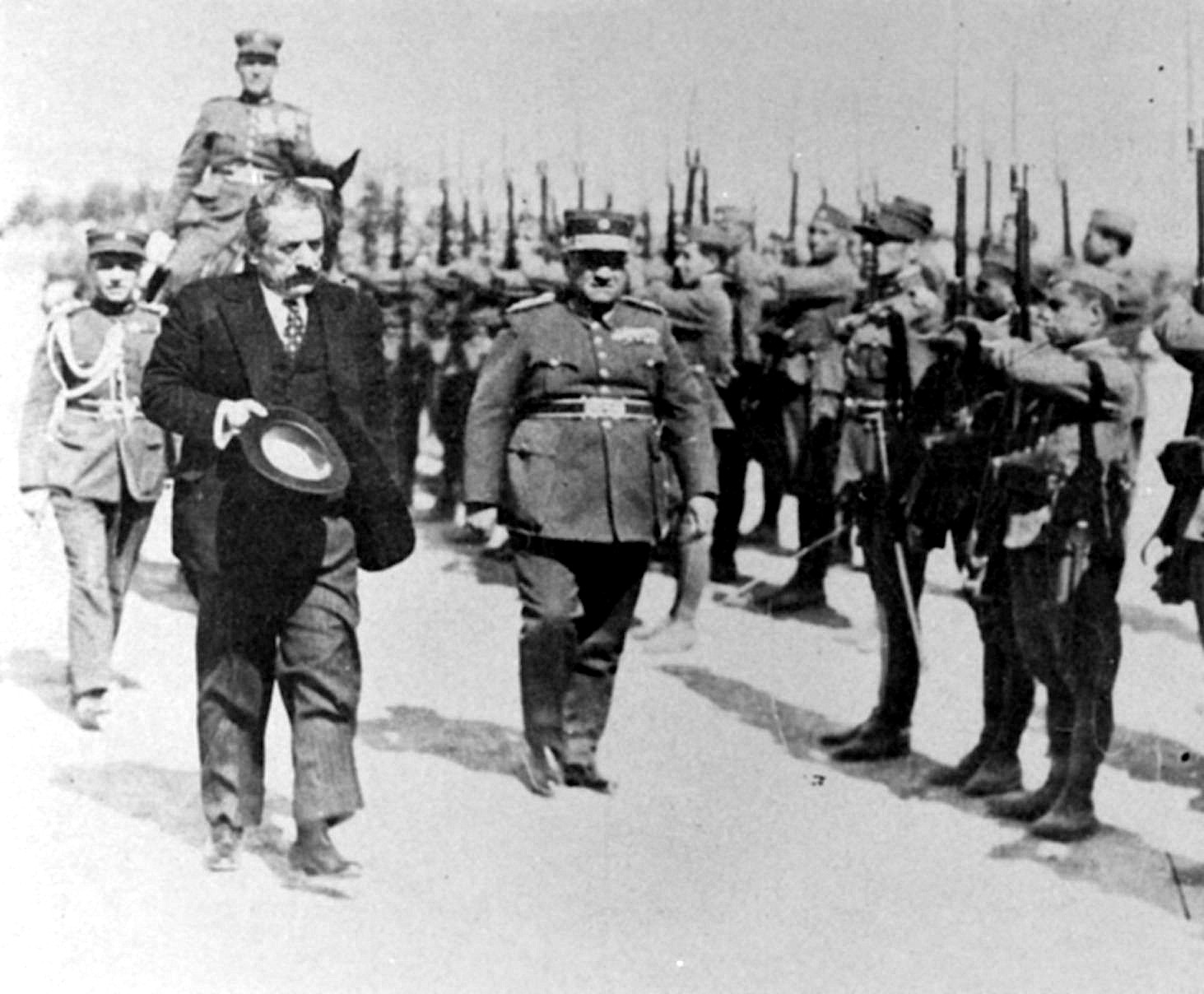 Minister of Military Affairs Georgios Kondylis inspects an army unit in 1934